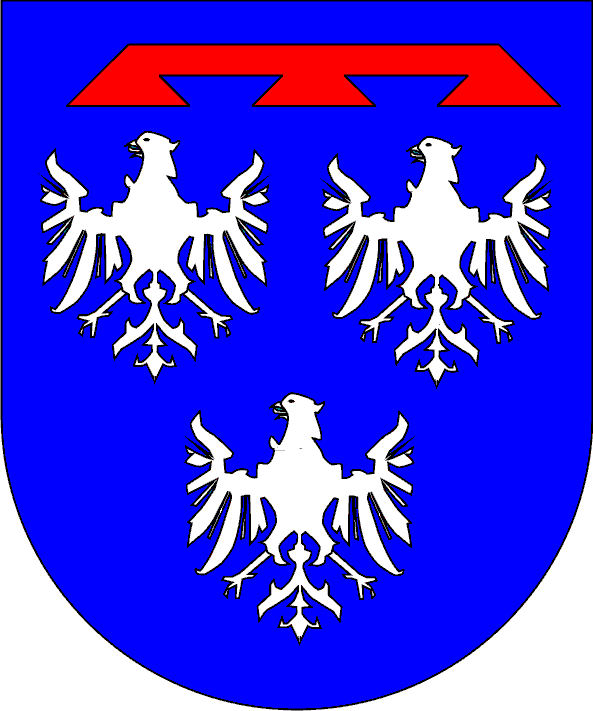 coats of arms of the principality of Leiningen